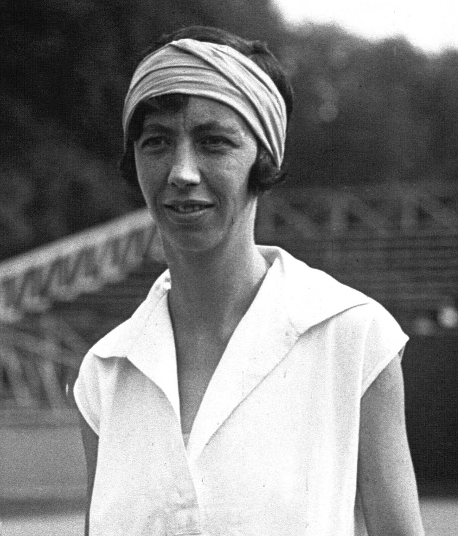 British tennis player Dorothy Shepherd-Barron at the 1926 France v. England women's competition at the Racing Club in Paris